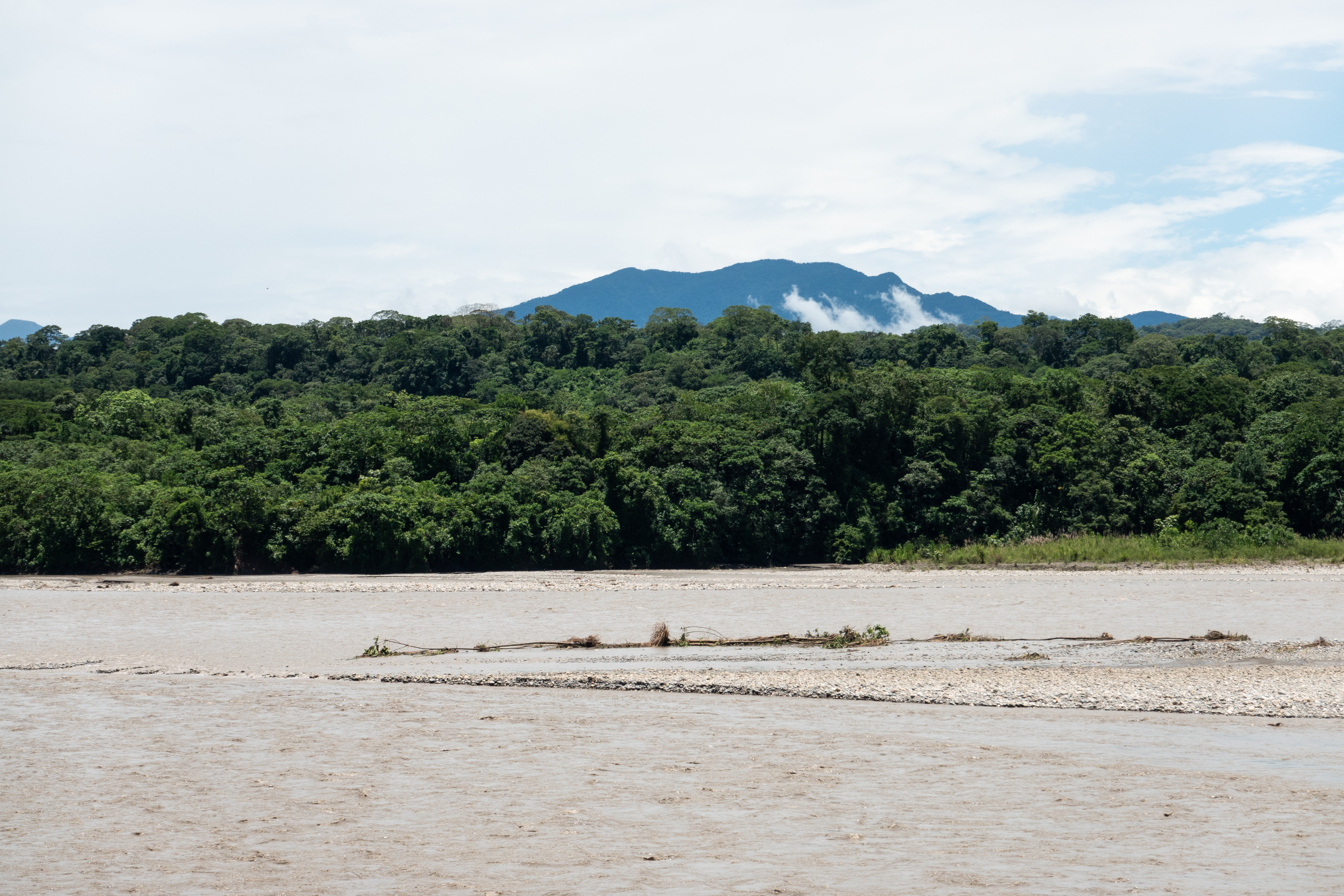 Rio San Matéo and Rio Espíritu Santo Confluence to form Rio Chapare at Villa Tunari